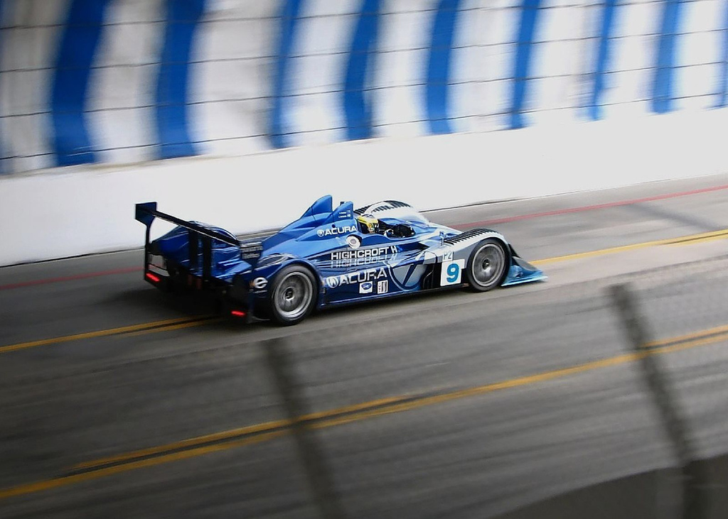 Highcroft Racing Acura, Long Beach Grand Prix 2007, ALMS